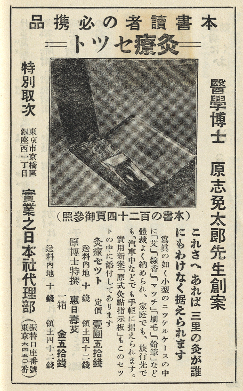 Advertisement for a Moxibustion Set developed by Hara Shimetarō (1882-1992) who wrote the first doctoral thesis on the medical usage of Moxa (Imperial Kyushu University, 1929)